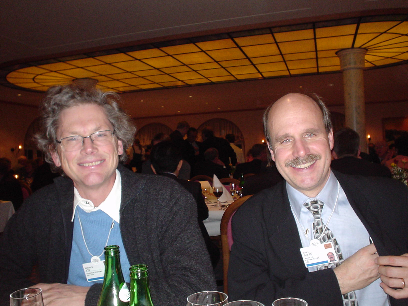 Bill Joy and Paul Saffo at Japan Dinner Davos 2003.